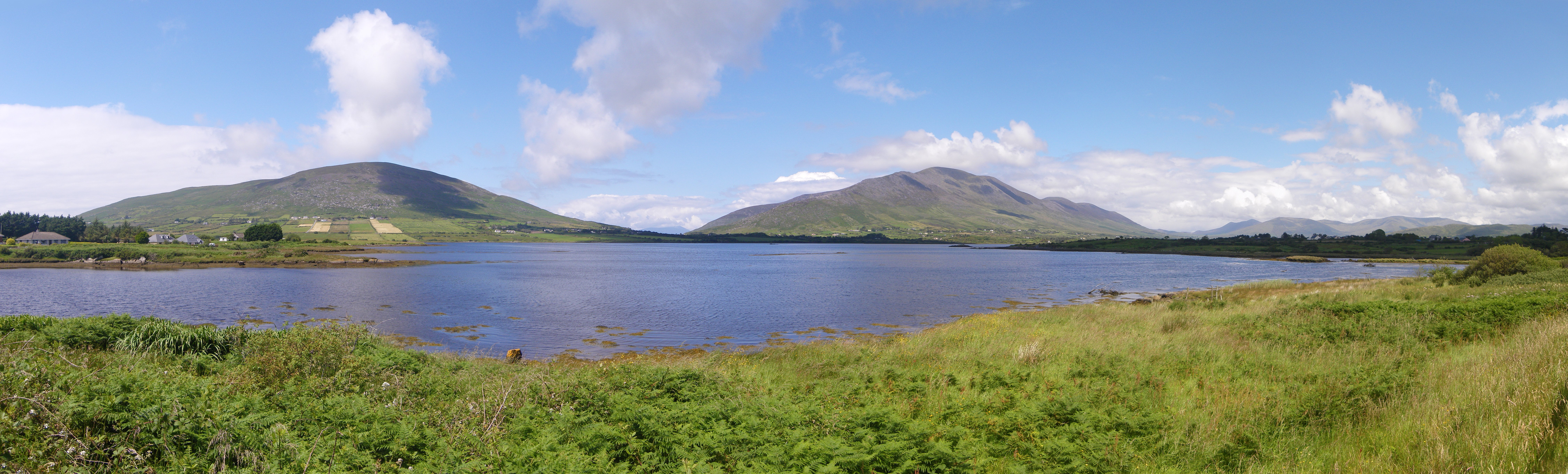 Estuary of River Ferta with the mountain of Castlequin (361 metres) on the left and the 690 metre mountain of Knocknadobar on the right, both on the Iveragh Peninsula in County Kerry in Ireland.